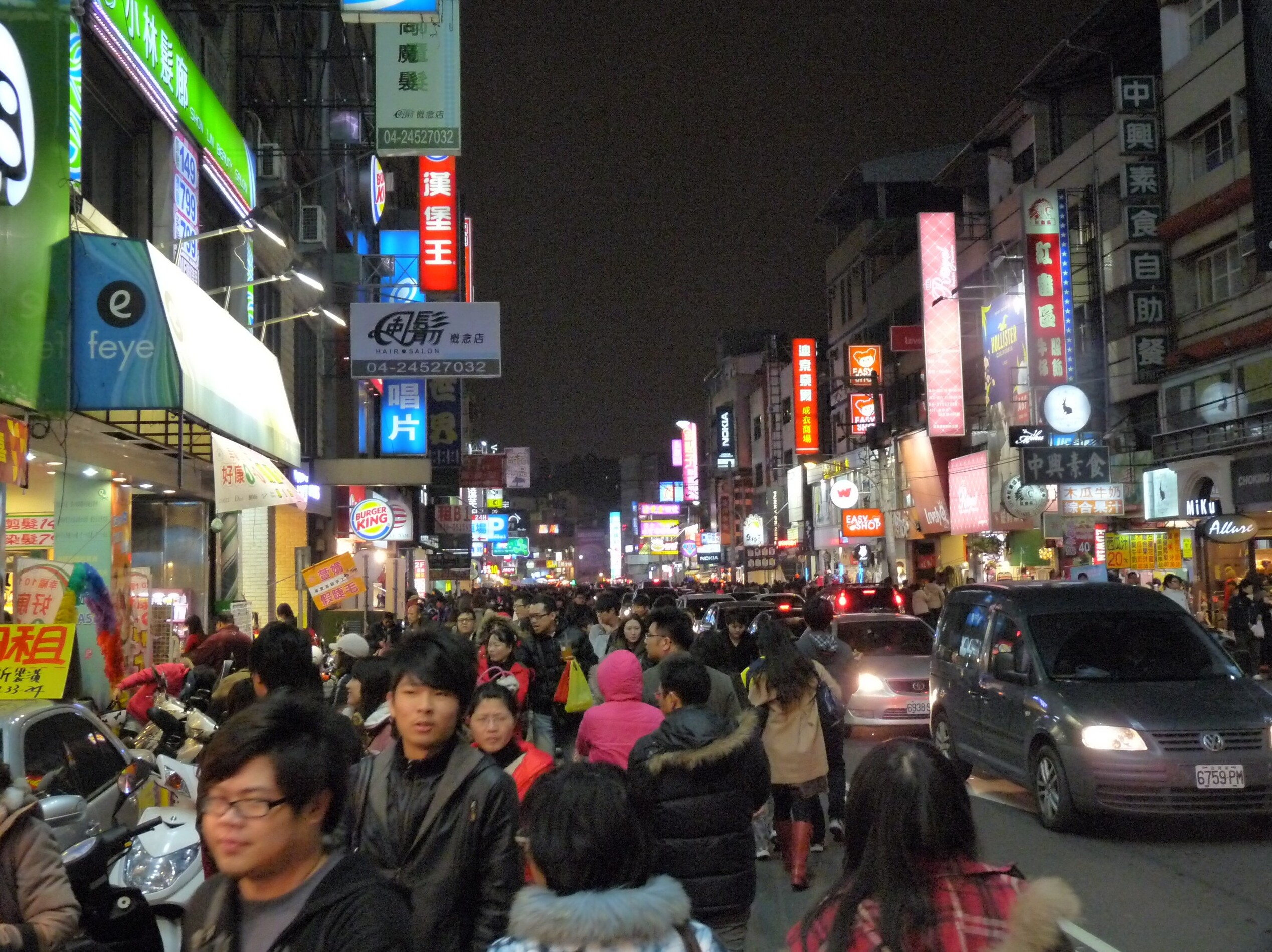 Crowds on Fuxing Road, Xitun District, Taichung City at night. Taken in the Feng Chia Night Market from west to east.